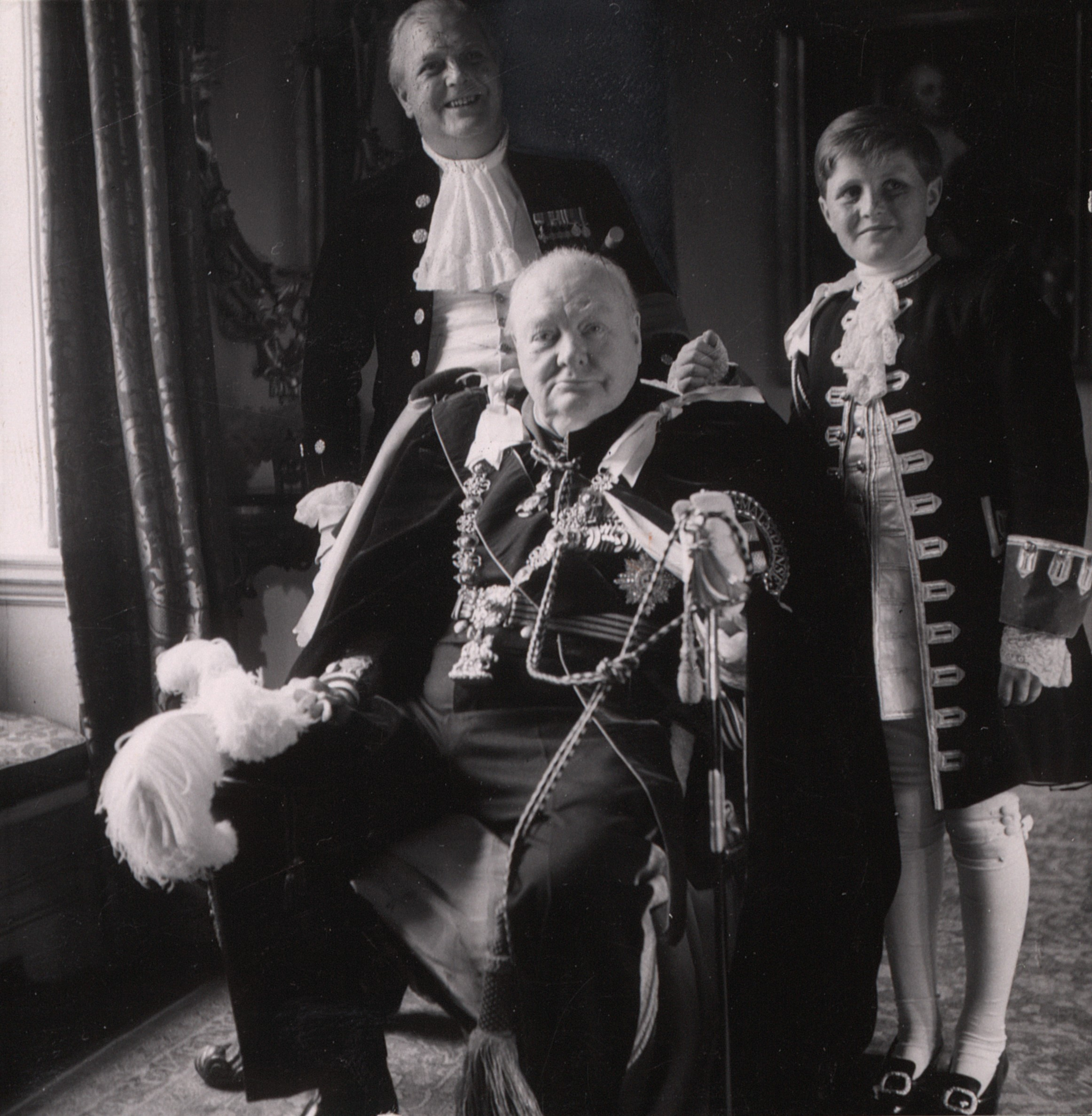 Photograph shows Winston Churchill, full-length portrait, seated, facing front, with his son and grandson standing behind him, wearing coronation robes.